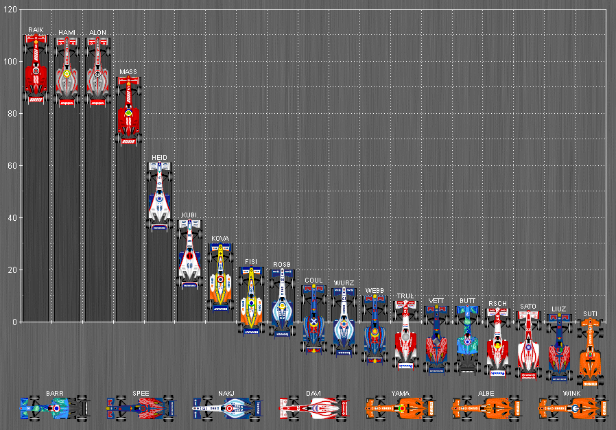 chart of final standings of 2007 Formula One season